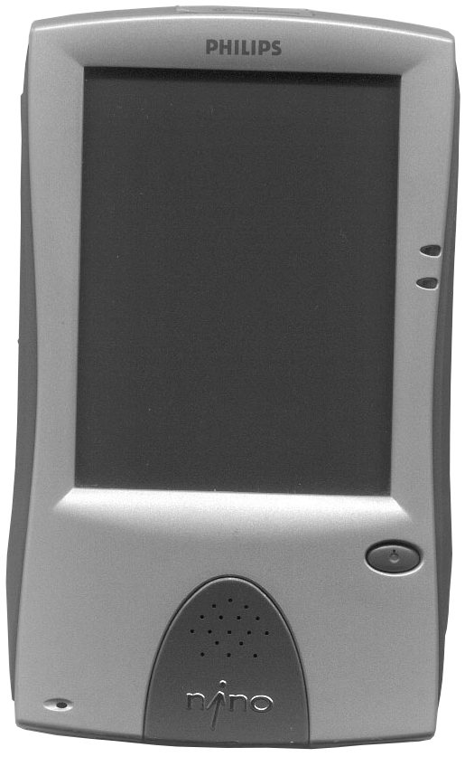 Philips Nino 200 Windows CE powered Handheld PC